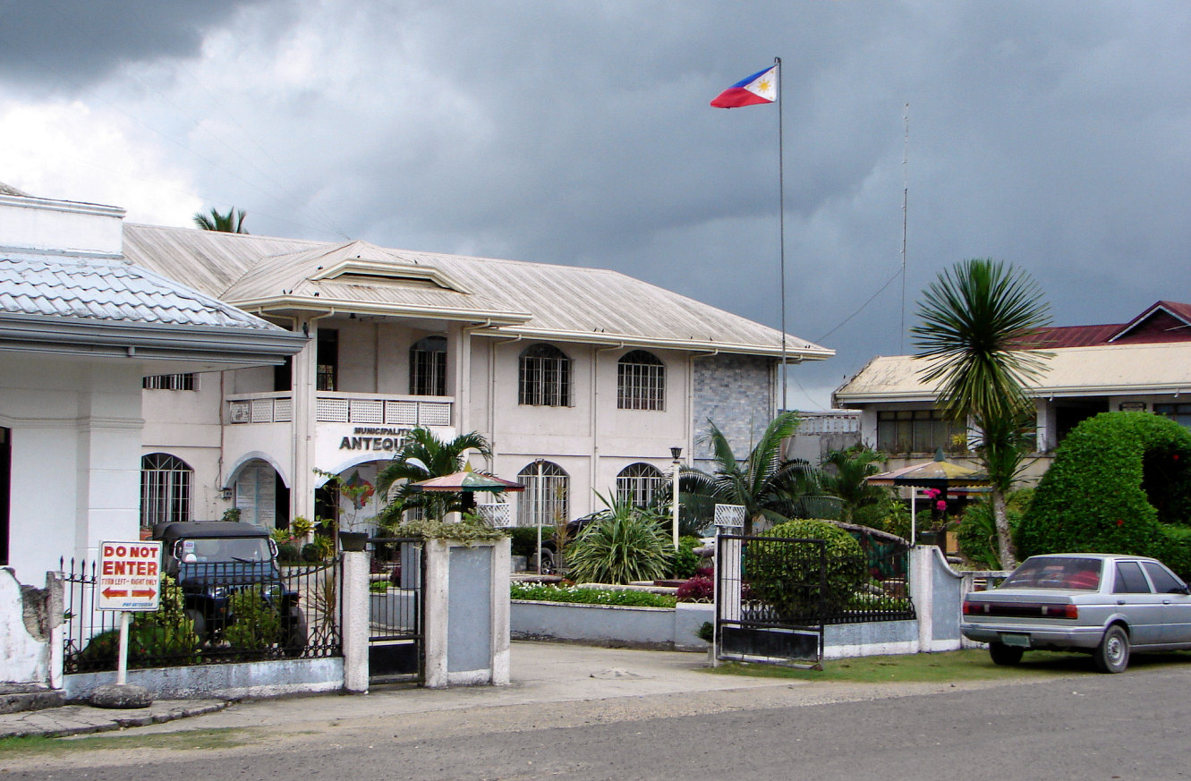 Town Hall of Antequera, Bohol, the Philippines